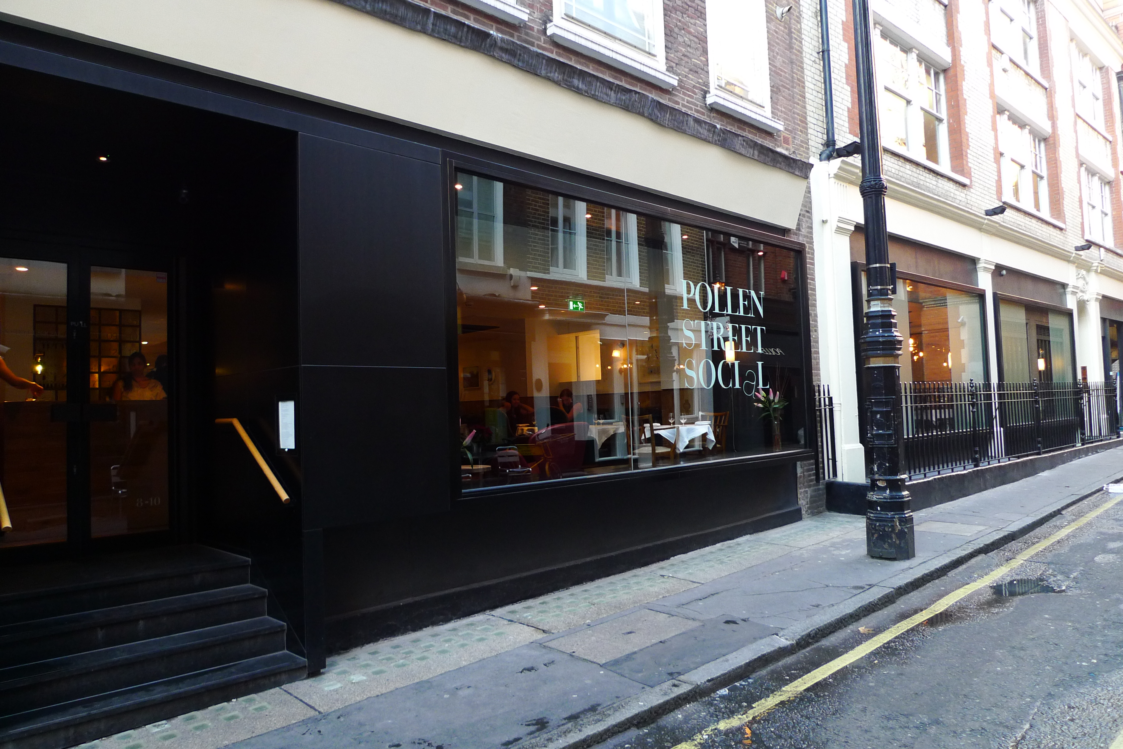 This used to be a chain bar, but is now a rather nice restaurant with a bar/casual dining area and restaurant. (Photo of set lunch menu, Dec 2011, with links to food photos.) (Photo of it as Pitcher and Piano.) Address: 8-10 Pollen Street. Owner: (website); Marston's [Pitcher and Piano] (former). Links: London Eating Beer in the Evening (Pitcher and Piano) --- The Daily Telegraph [Matthew Norman] The Evening Standard [Fay Maschler] The Guardian [John Lanchester] The Independent [John Walsh] The Independent on Sunday [Lisa Markwell] The Sunday Telegraph [Zoe Williams] --- A Rather Unusual Chinaman [EuWen Teh] London Eater [Kang Leong] Tamarind and Thyme [Su-Lin]